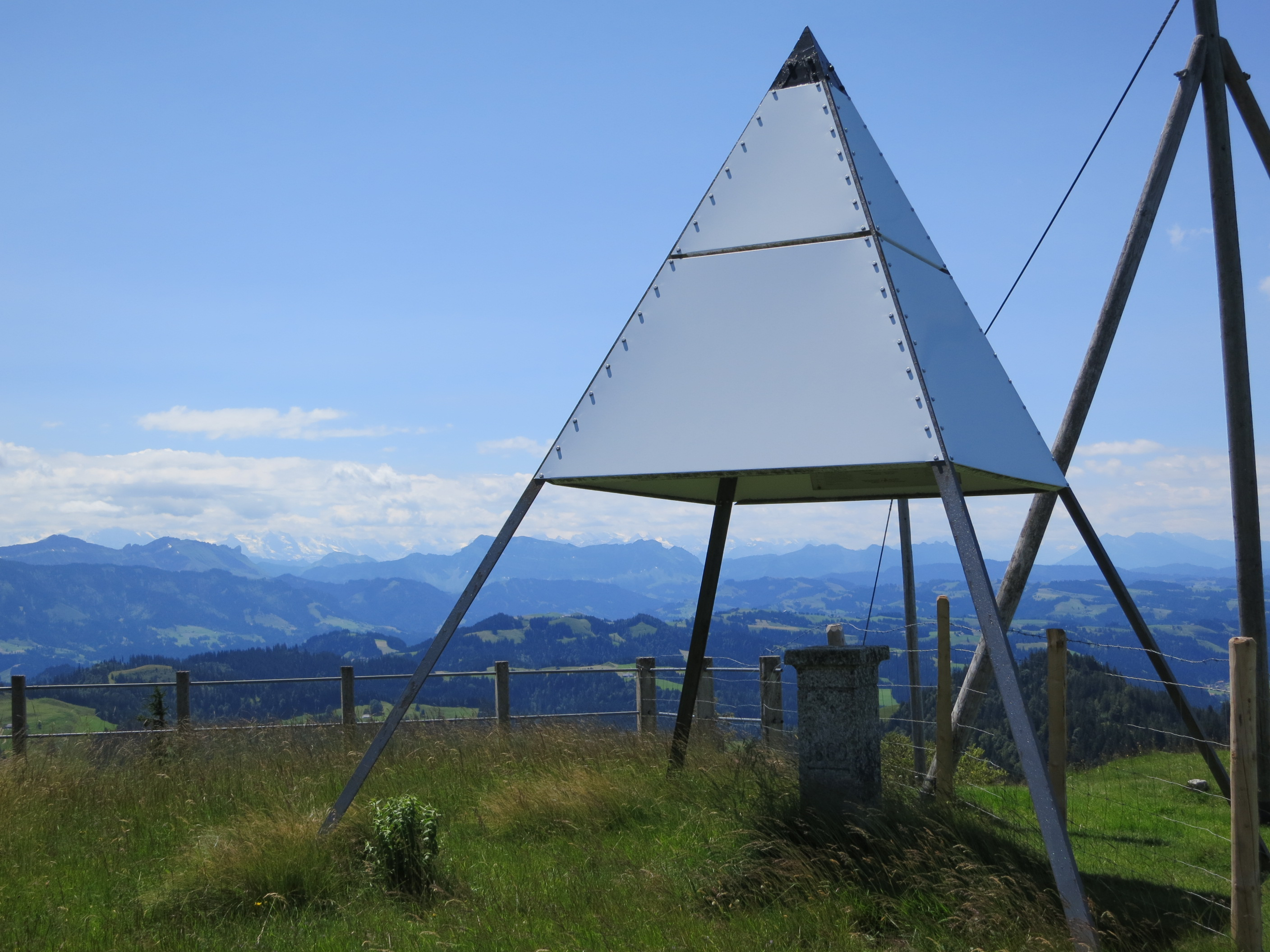 Napf Triangulationspunkt Süd, Trub BE, Schweiz